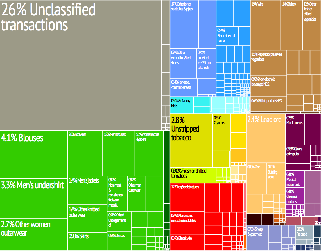 Export Trading Treemap. From MIT/Harvard Atlas of Economic Complexity